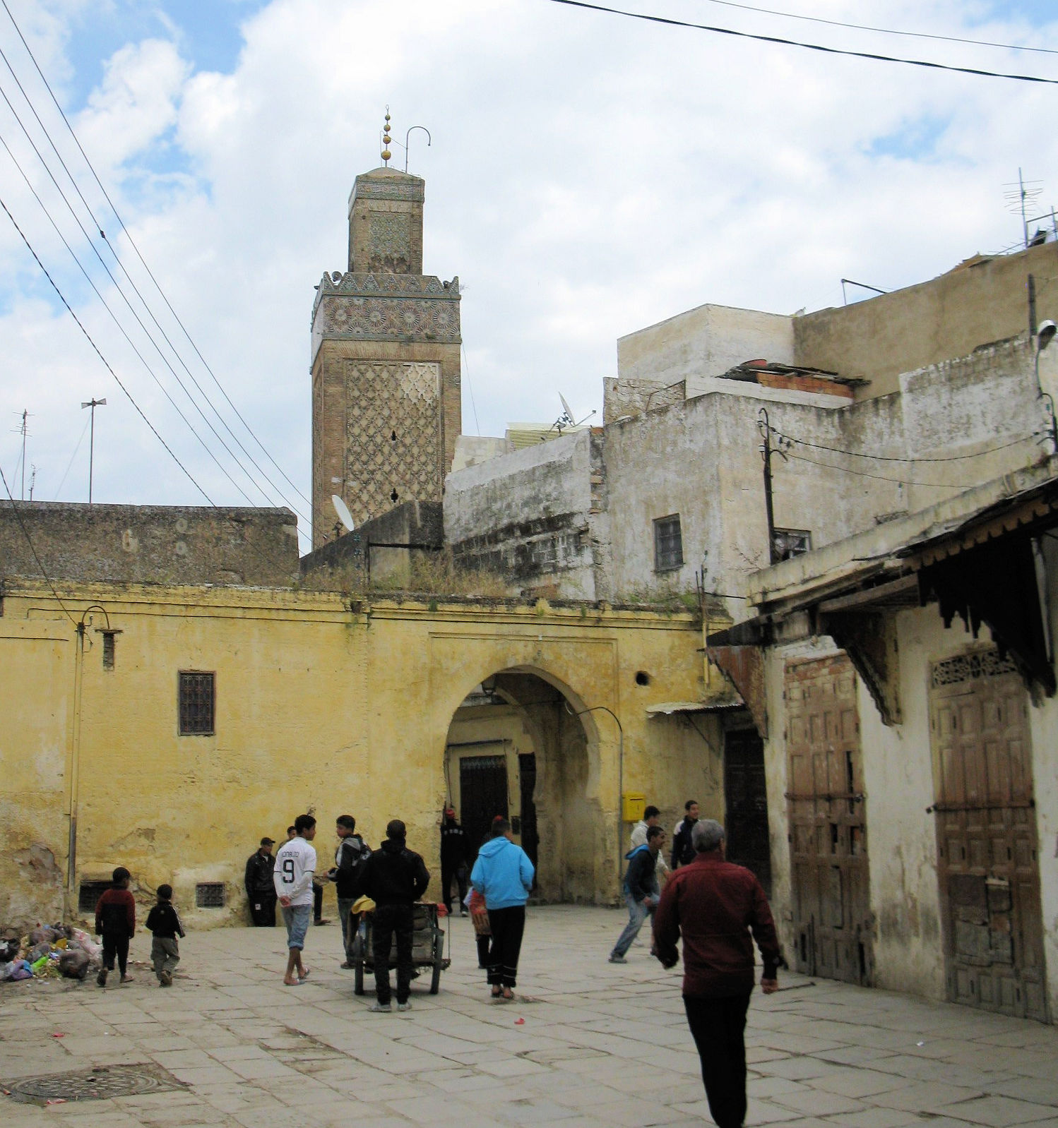 Street scene in Fes el-Jdid, with minaret of the Great Mosque visible.